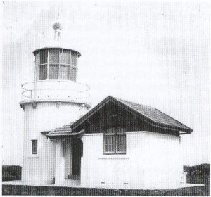 Crookhaven Heads Light c. 1908 in pristine condition